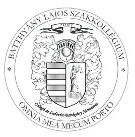 Logo of the Battyány Lajos College (Hungary, Győr) of the Széchenyi István University